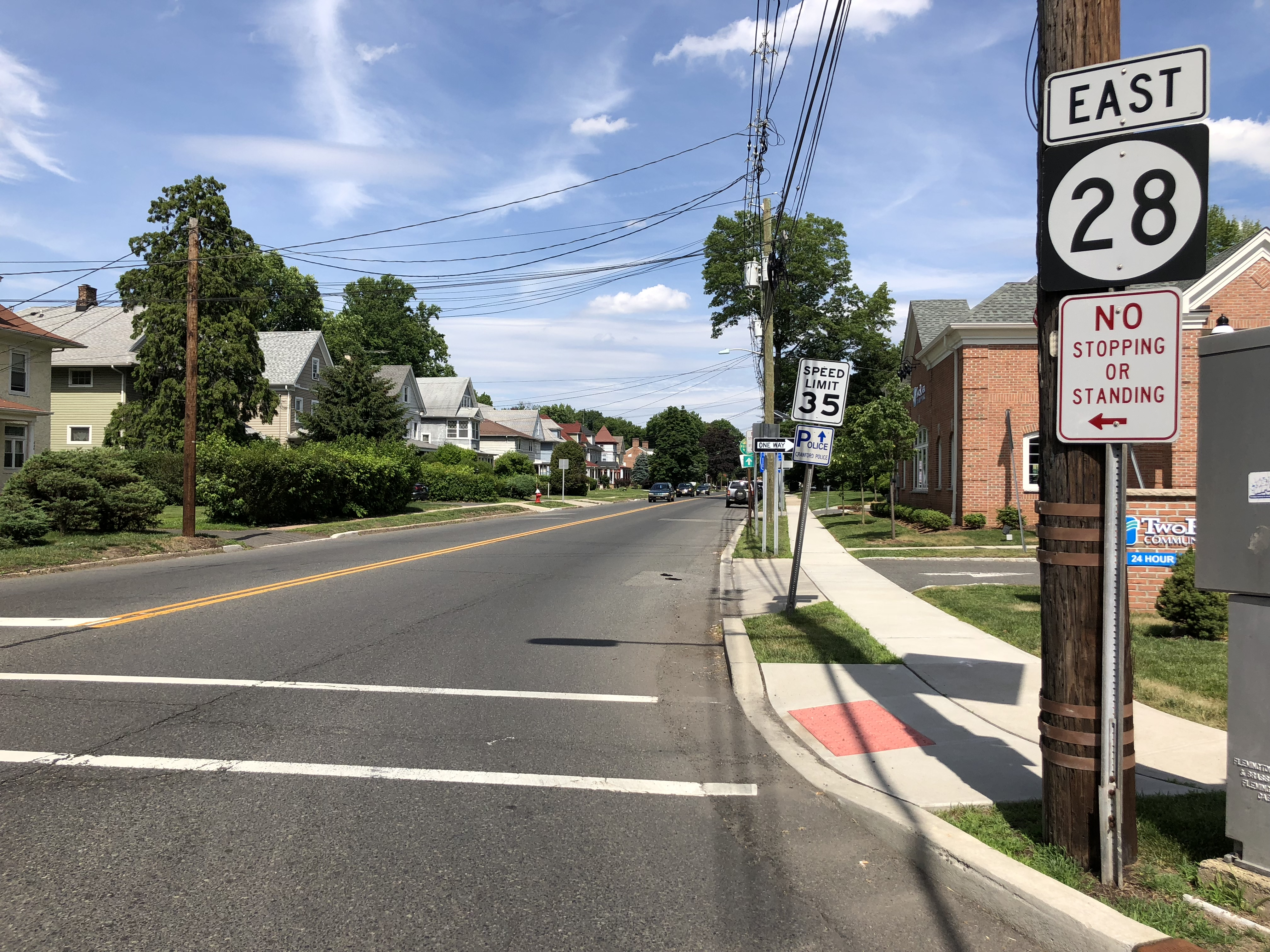 View east along New Jersey State Route 28 (North Avenue) at New Jersey State Route 59 (Lincoln Avenue) in Cranford Township, Union County, New Jersey